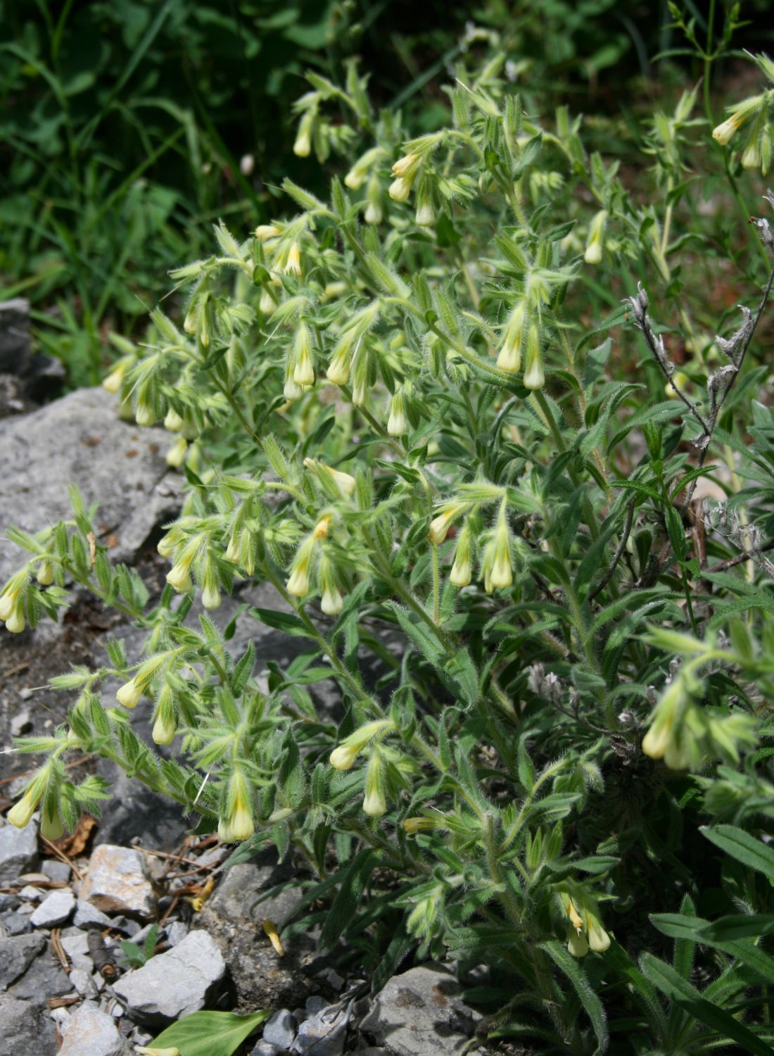 Onosma helvetica subsp. fallax, Borretschgewächse (Boraginaceae) - Italien/Italia/Italy: Friuli-Venezia Giulia, Prov. Trieste, Sistiana, Rilkeweg/Sentiero Rilke